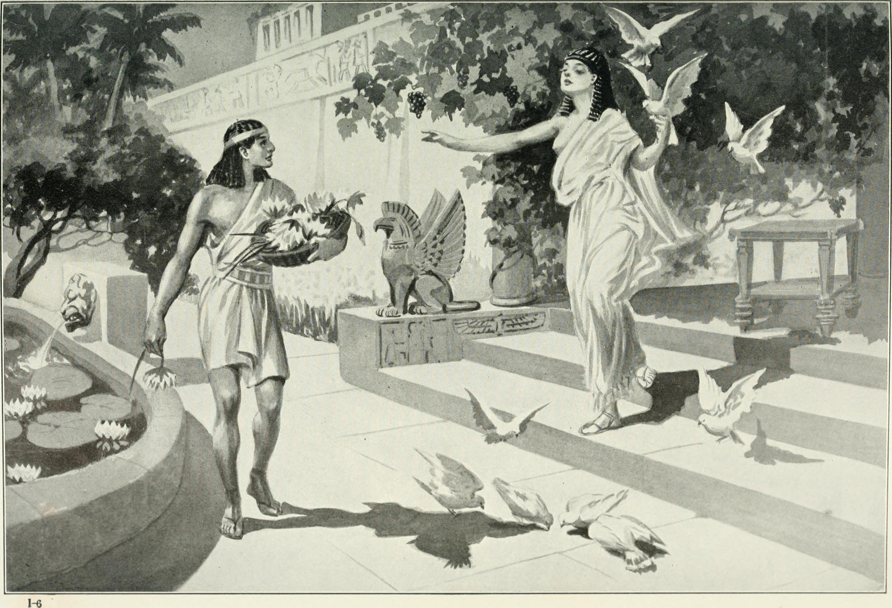 Title: "The Legend of Sargon (The Goddess Ishtar Appears to Sargon, the Gardener's Lad)" By the contempoarary artist, Edwin J. Prittie", The story of the greatest nations Year: 1913 (1910s) Authors: Ellis, Edward Sylvester, 1840-1916 Horne, Charles F. (Charles Francis), 1870-1942 Subjects: World history Publisher: New York : Niglutsch Text Appearing Before Image: THE LEGEND OF SARGON (The Goddess Ishtar Appears to Sargon, the Gardener's Lad) By the contemporary American artist, Edwin J. Prittie